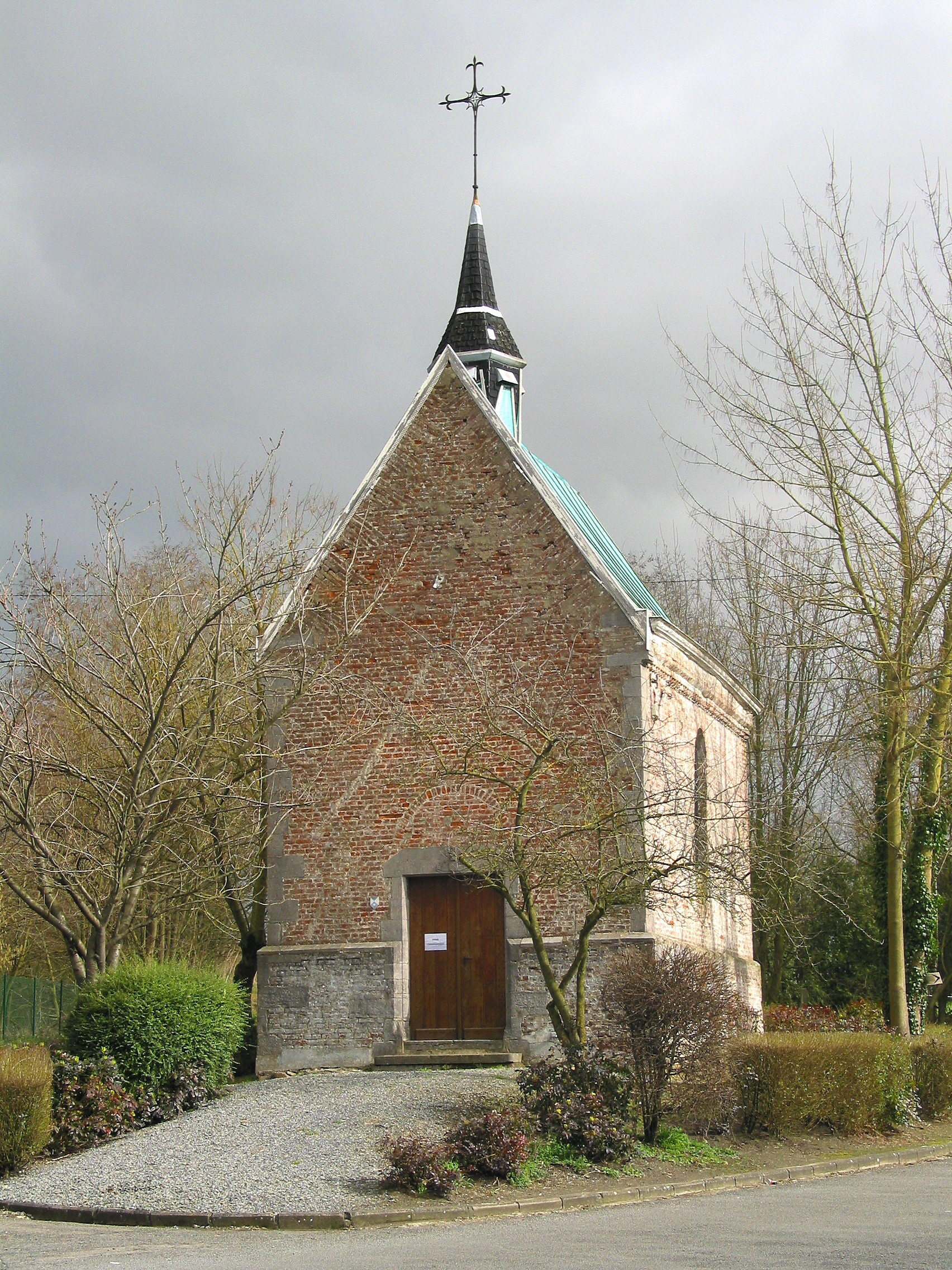 Obourg (Belgium), the St. Macarius chapel (1616).